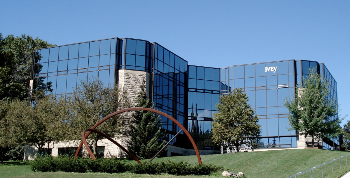 Richard Ivey School of Business building on the campus of University of Western Ontario.